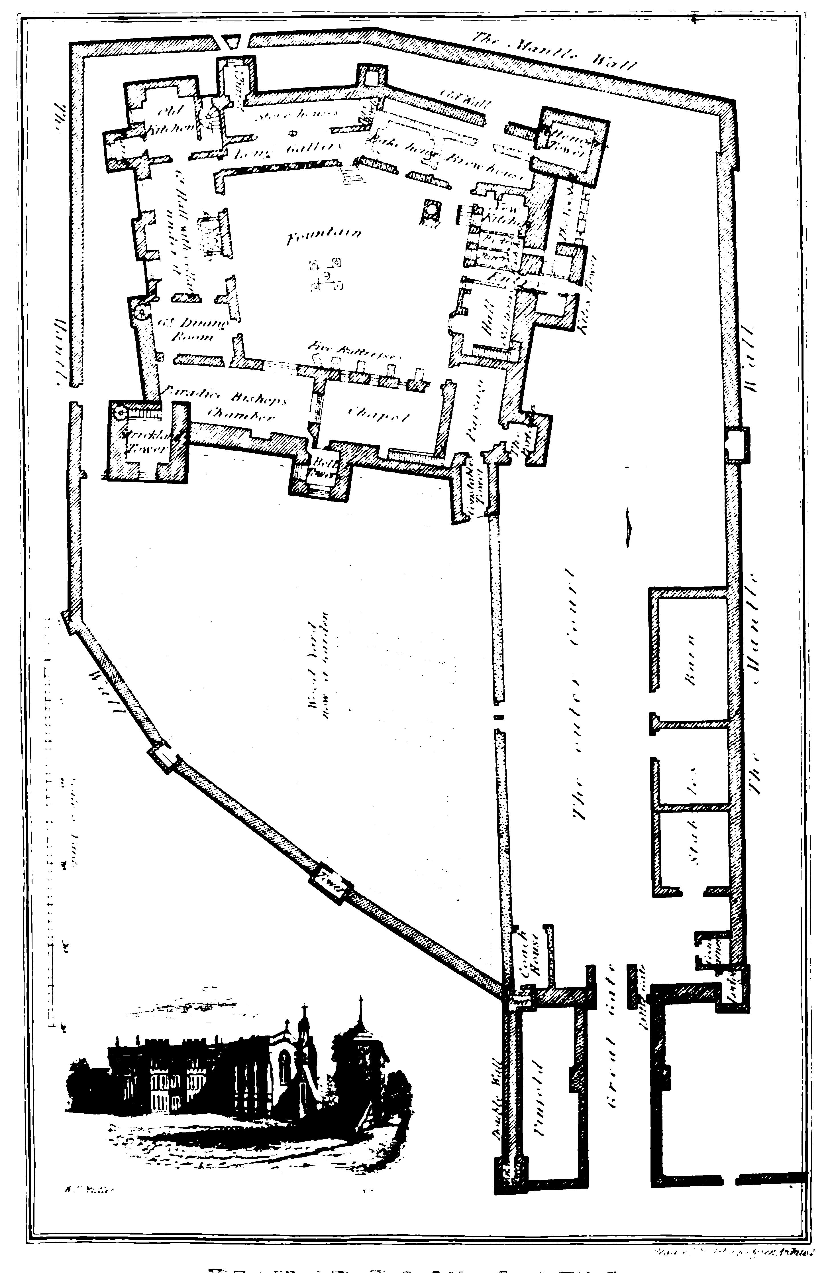 Plan of Rose Castle, Dalston, Cumbria, England, in its old state.